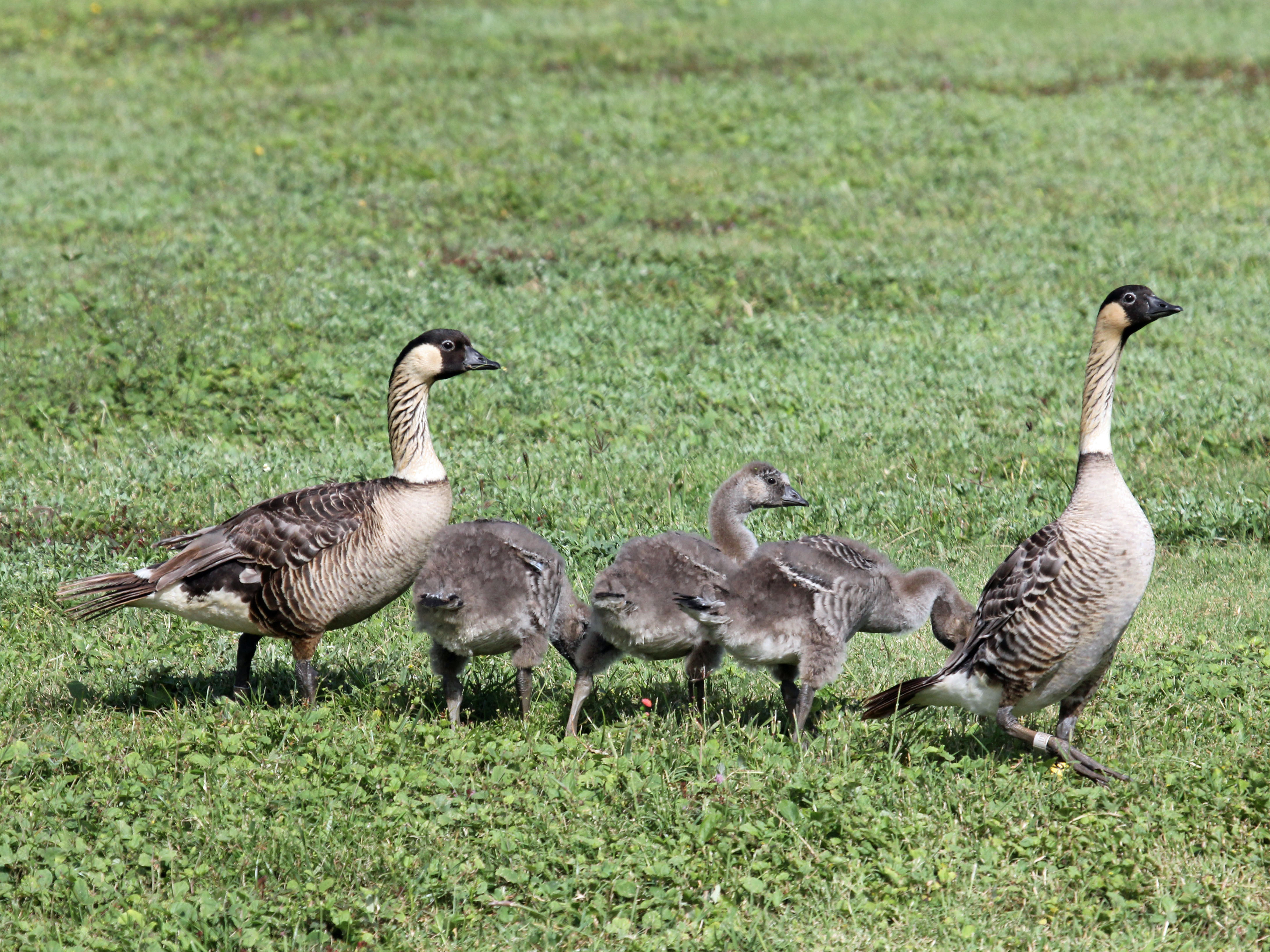 Nene, also Hawaiian Goose (Branta sandvicensis) - Kauai, Hawaii. Mom in the rear, 2 chicks in middle, Dad in front.